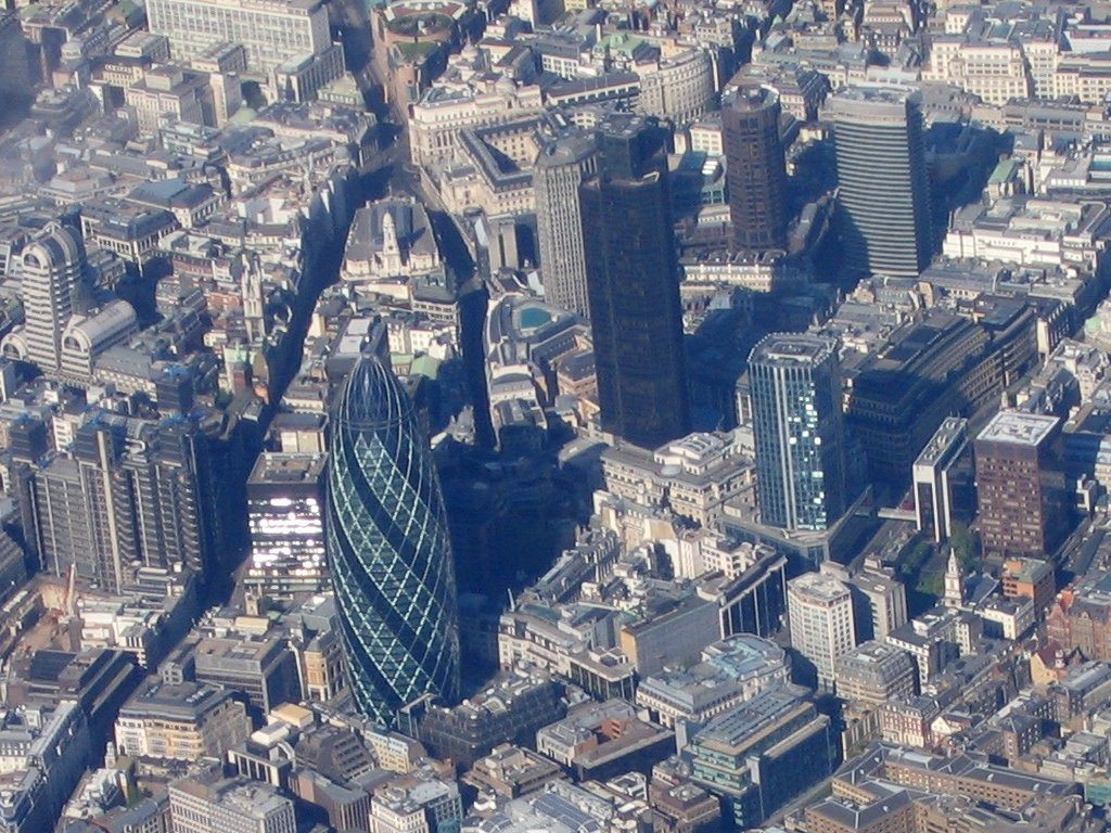 Aerial view of the City of London